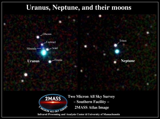 Atlas Images of Uranus, Neptune, and their moons. Uranus and Neptune were observed serendipitously by the 2MASS Southern Facility, during routine operations on 1998 June 7 and June 11 UT, respectively. Both planets appear very blue, i.e., they are not nearly as bright in the Ks band as in the shorter wavelength bands, due to more reflection of sunlight at short wavelengths and to absorption of light by methane gas in their atmospheres. The moons, or satellites, of both planets have icy surfaces with no (or very little) atmospheres. They simply reflect sunlight by various amounts, depending on the albedo, or reflectivity, of each moon's surface. Umbriel has a surprisingly dark, icy surface. Miranda is the innermost and smallest of the five large Uranian moons. Triton is odd, in that it is in a highly-inclined retrograde orbit around Neptune, leading planetary scientists to infer that Triton was captured by Neptune's gravity. For more information about these and other planets, see NASA/JPL's Welcome to the Planets and NASA/GSFC's Planetary Fact Sheets. Moon identification in and further analysis of these 2MASS images by B. Nelson (IPAC).